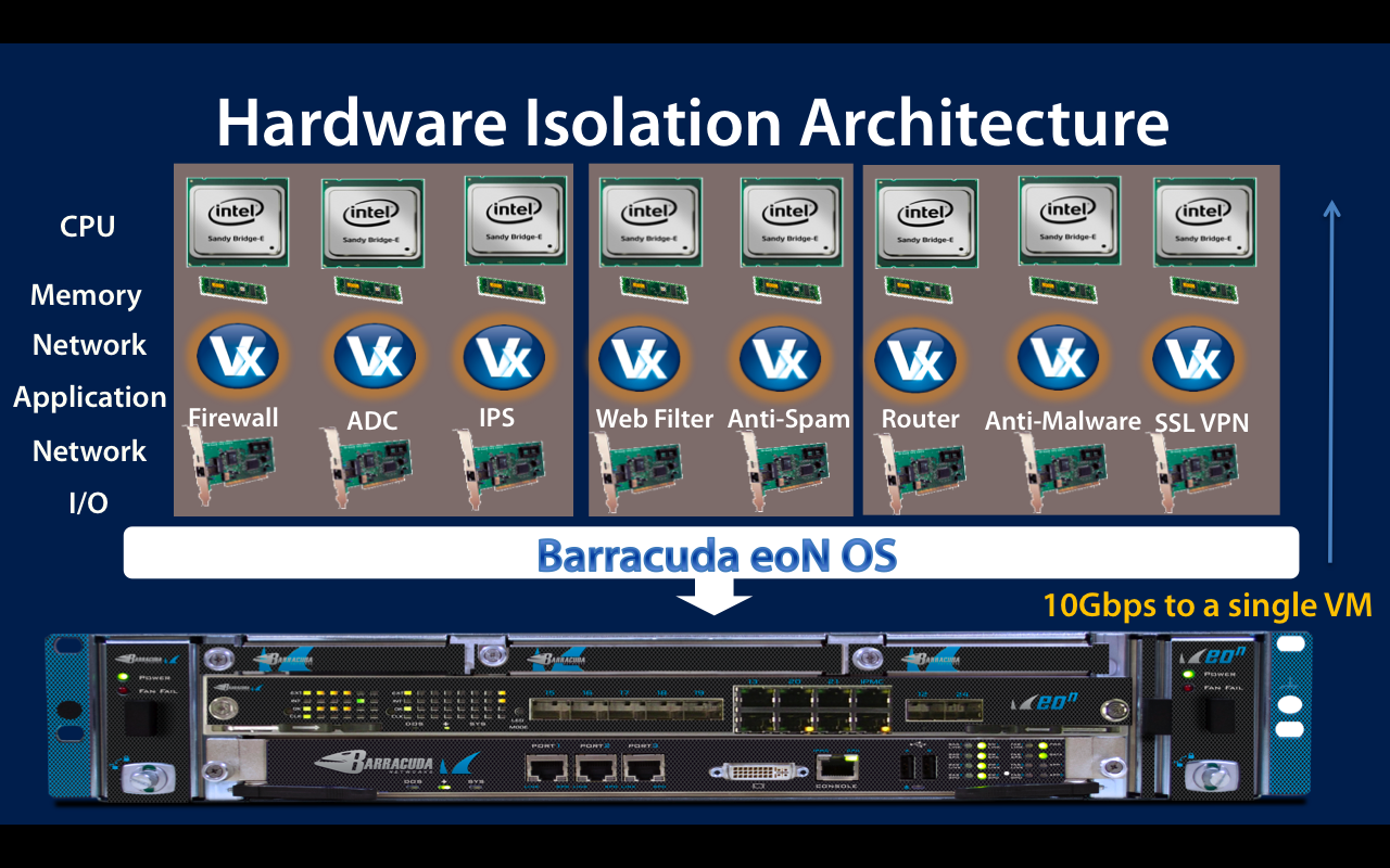 Network Virtualization Platform Architecture Example. This graphic shows how network devices can be deployed within the same system while enjoying the benefits of hardware isolation including IO virtualization.